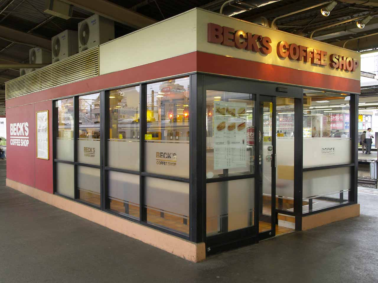 Beck's Coffee Shop, operated by JR East Food Business.